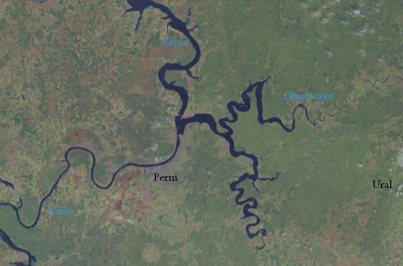 Crossing of the rivers Chusovaya (tributary) and Kama (main river) near the city of Perm. Ural mountains on the right. Satellite image.